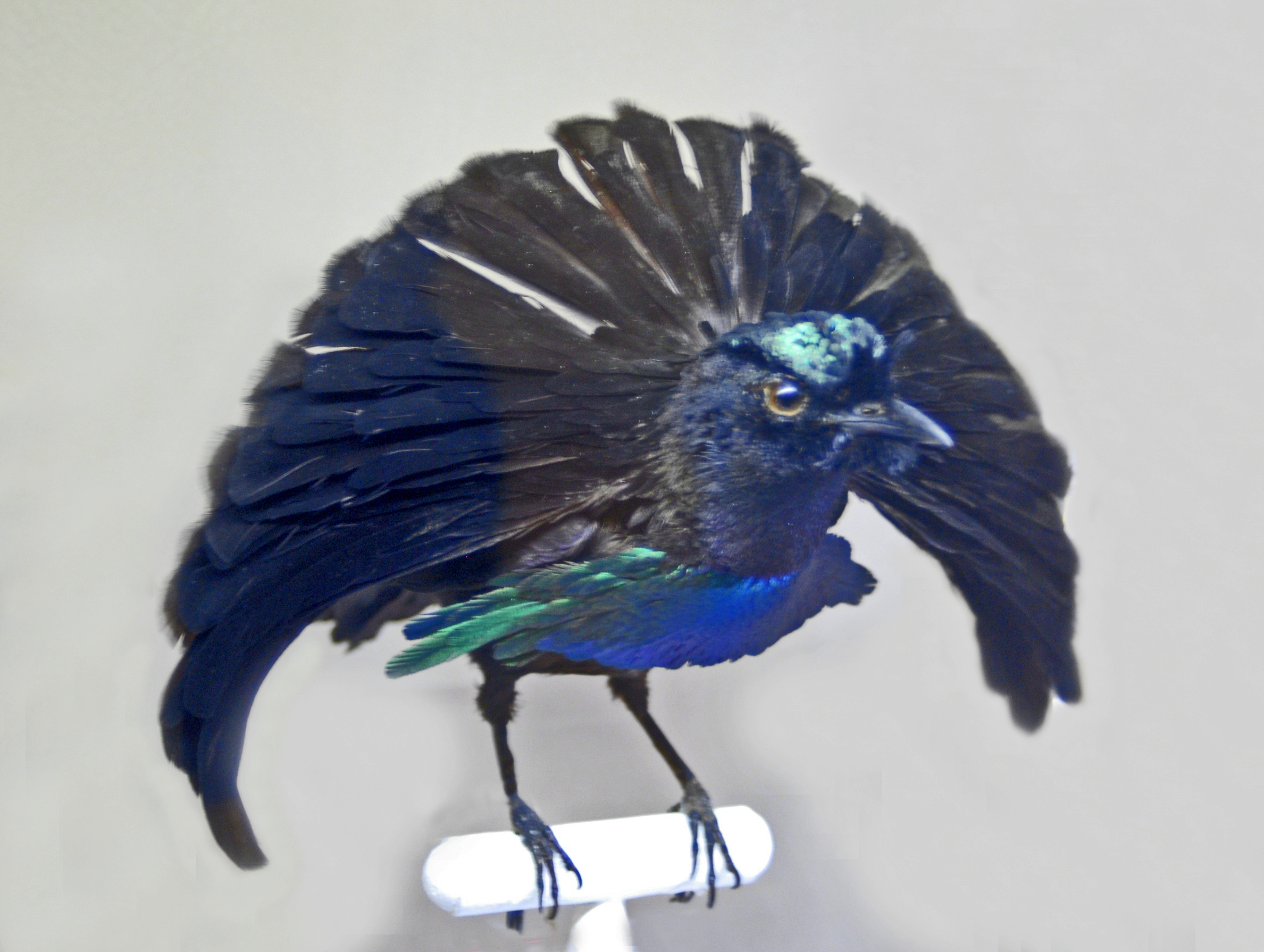 Lophorina superba, male. Museum specimen